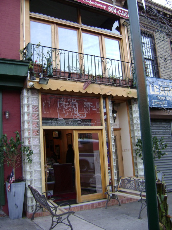 The storefront of the Cake Man Raven Confectionary in Brooklyn, New York City.